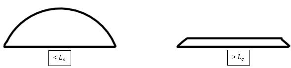 Diagram of sessile drops compared to Capillary Length